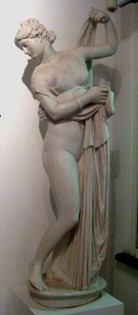 Aphrodite Kallipygos. Cast, Pushkin museum's collection. Exposition in Zurab Tsereteli's gallery